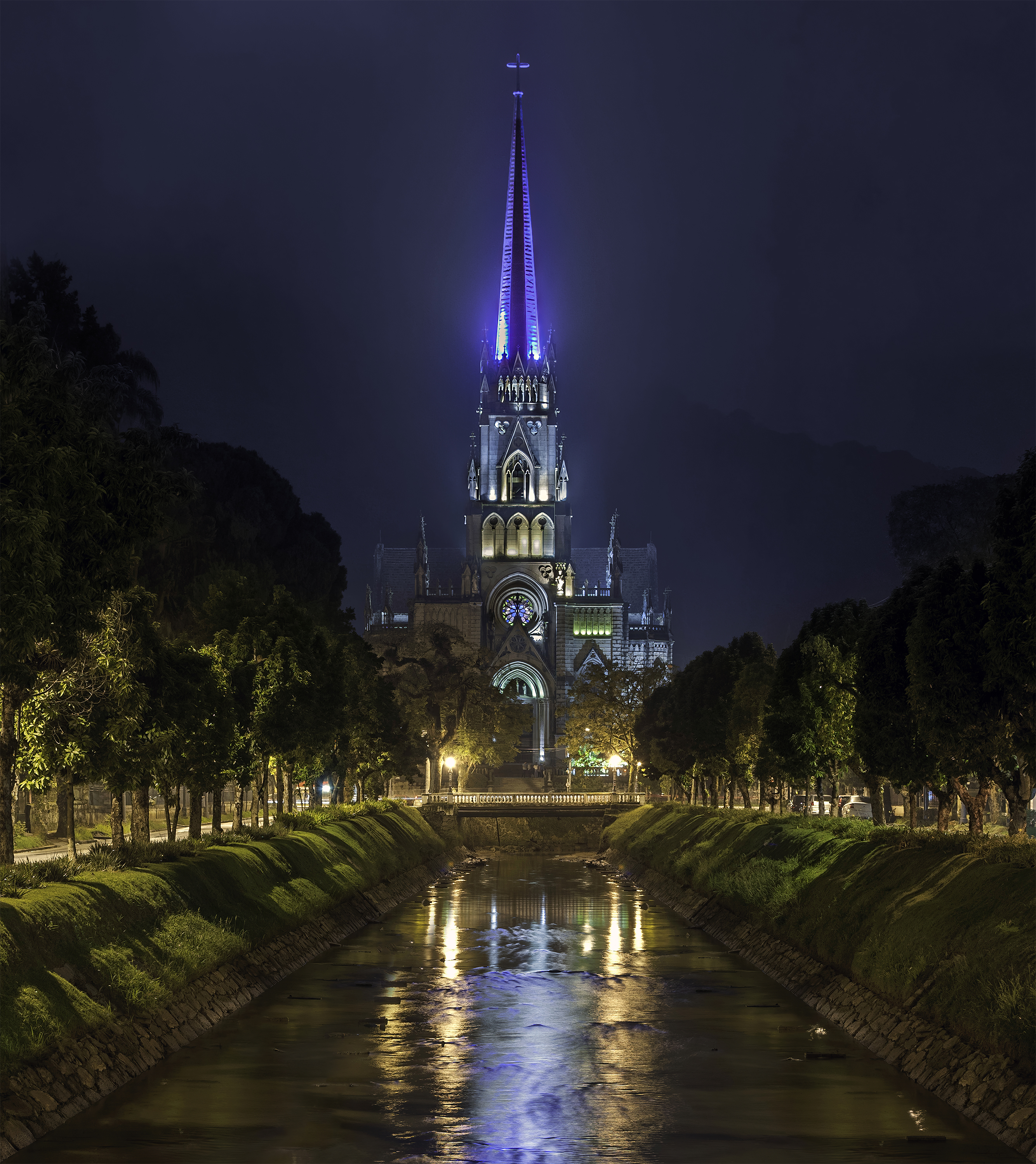 Petrópolis Cathedral, Saint Peter of Alcantara Church, is the burial place of Emperor Pedro II and is located in Petrópolis, Brazil.